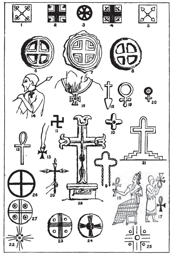 Page of symbols referenced in Curious Myths of the Middle Ages